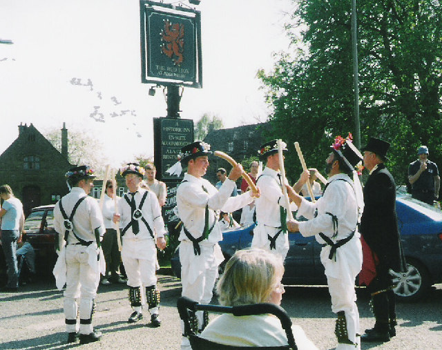 Adderbury Day of Dance, Red Lion Pub, Adderbury, Oxfordshire